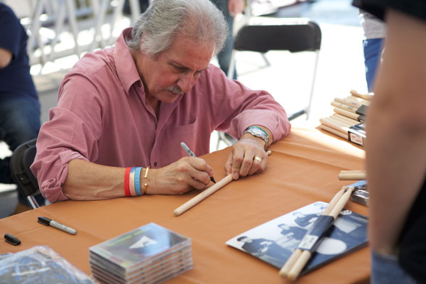 Pete Best autographs a drum stick for a fan at Abbey Road on the River in Washington, D.C. (September, 2010).